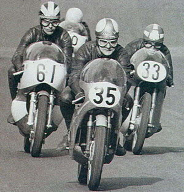 Mike Hailwood (35) Honda, Phil Read (61) Yamaha and Rod Gould (33) Bultaco at the start of a 250 race at Cadwell Park, Lincolnshire, England.